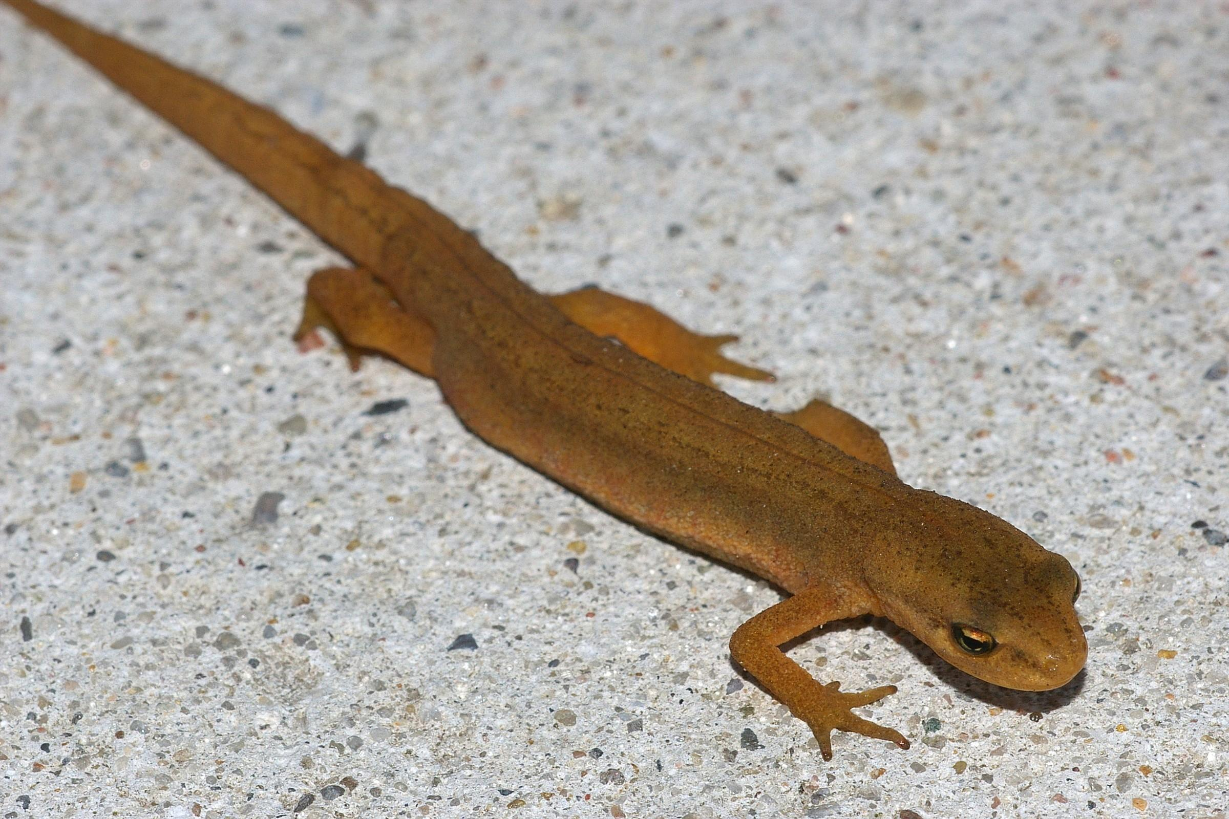 Smooth Newt (Triturus vulgaris); female specimen in land habit.